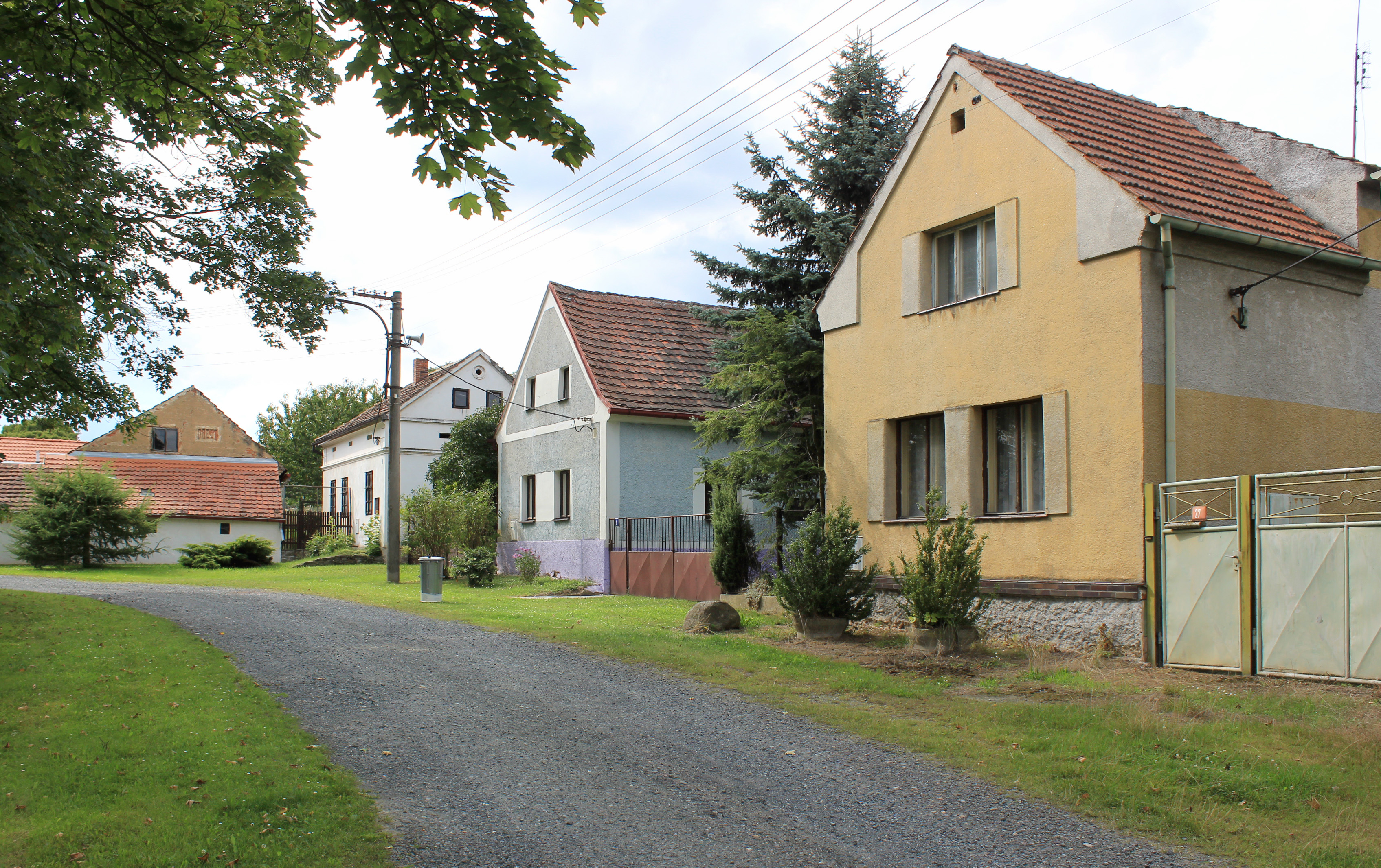 Common in Štichov, Czech Republic.